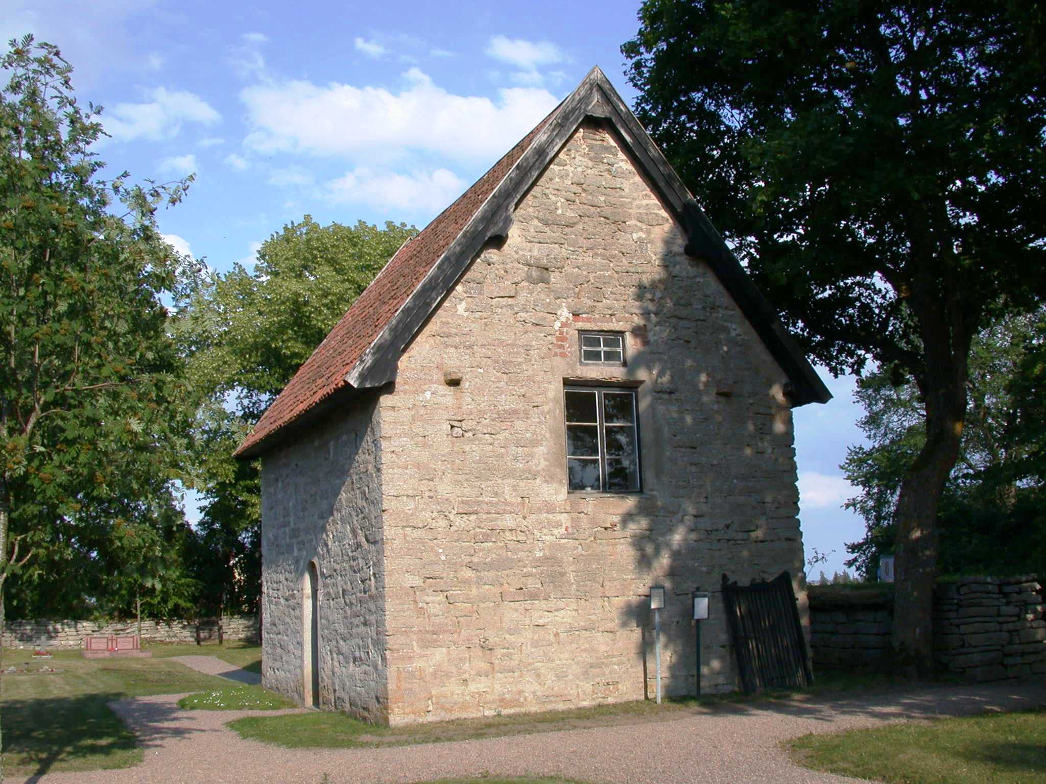 The hostel, Örberga church, Vadstena, Sweden. Photo by Riggwelter, July 20, 2006.